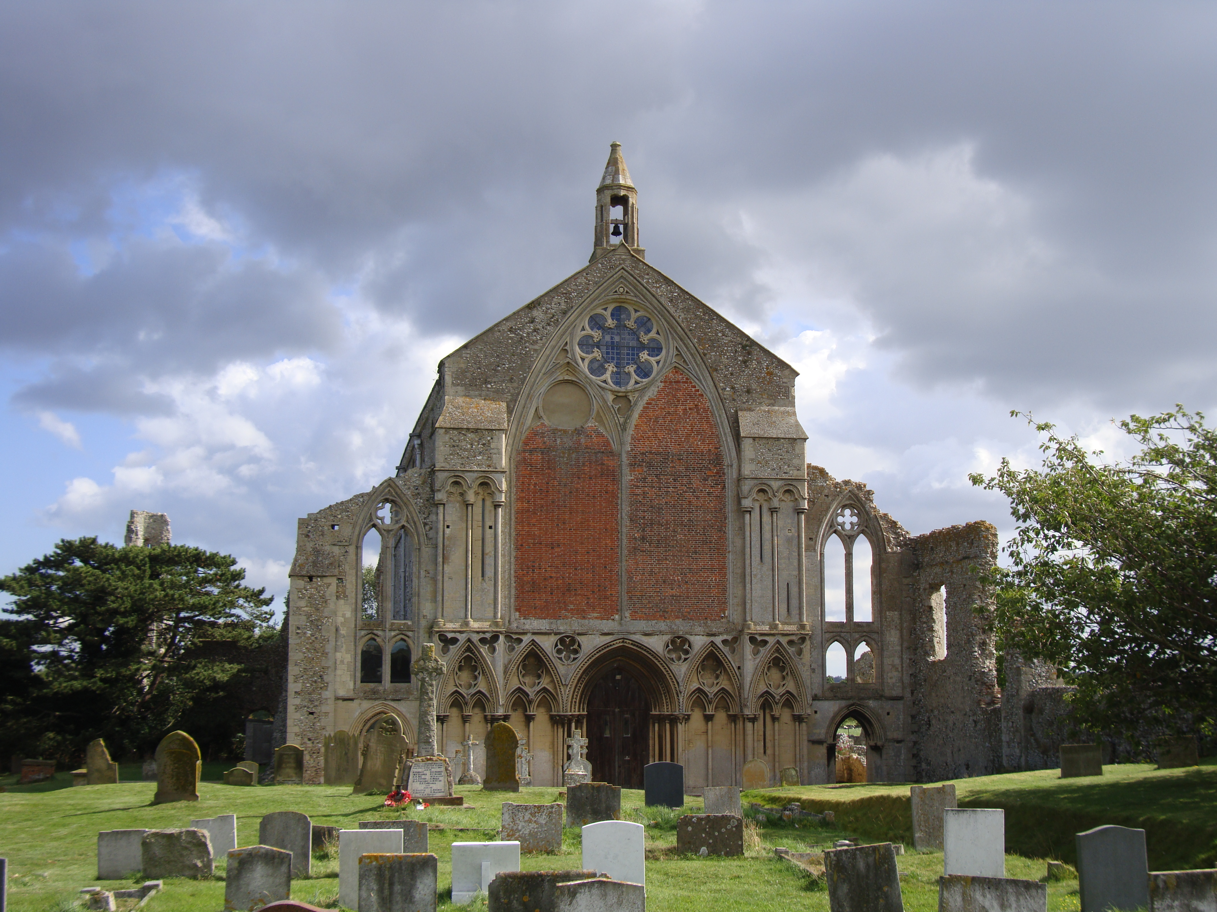 Photograph of Binham Priory, Norfolk, England